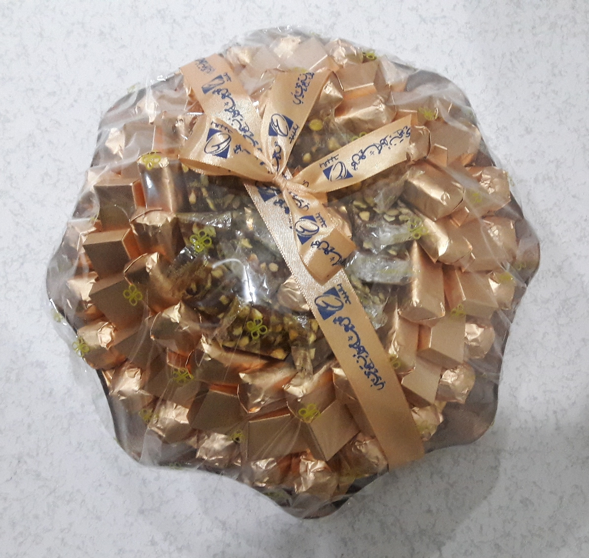 Chocolate